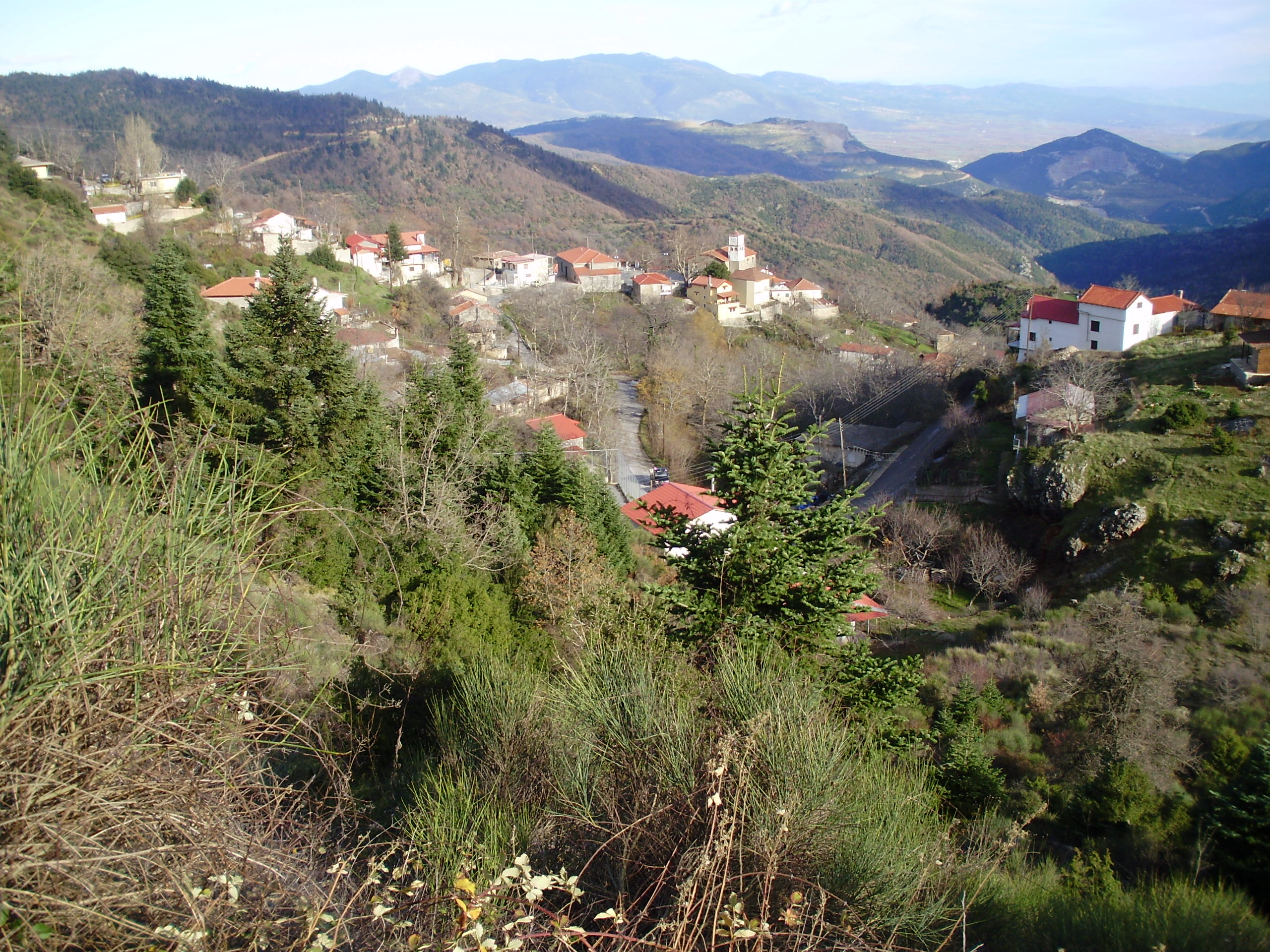 Kaloskopi, view